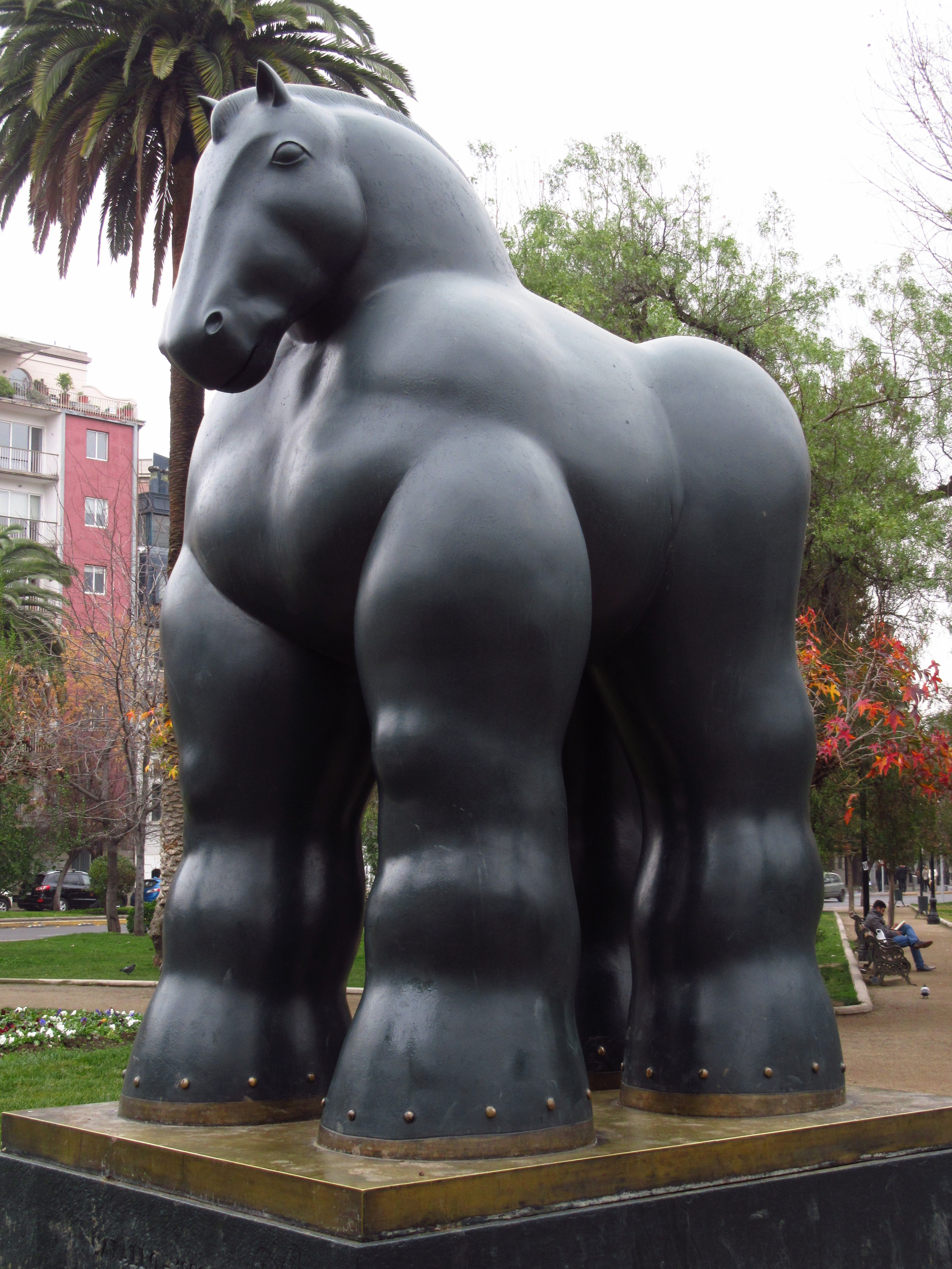 2017 in Santiago de Chile